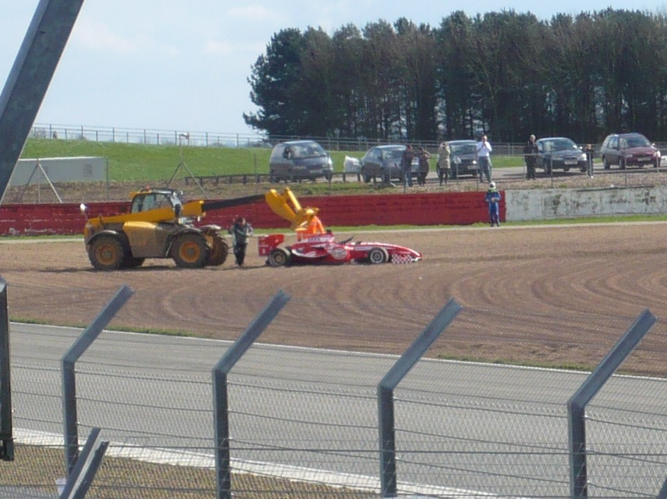 PSV Eindhoven car (Narain Karthikeyan) in the gravel. Photo taken by me at Silverstone SF round in 2010.